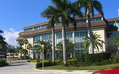 Palm Beach County Convention Center. Photo by Nick Juhasz.